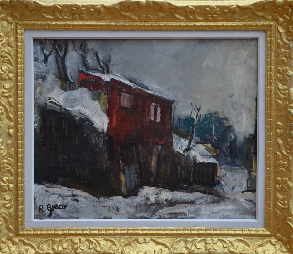 Roman Greco - Oil on canvas 51cmx61cm - La belle Gabrielle house, rue Saint-Vicent, Montmartre - 1947